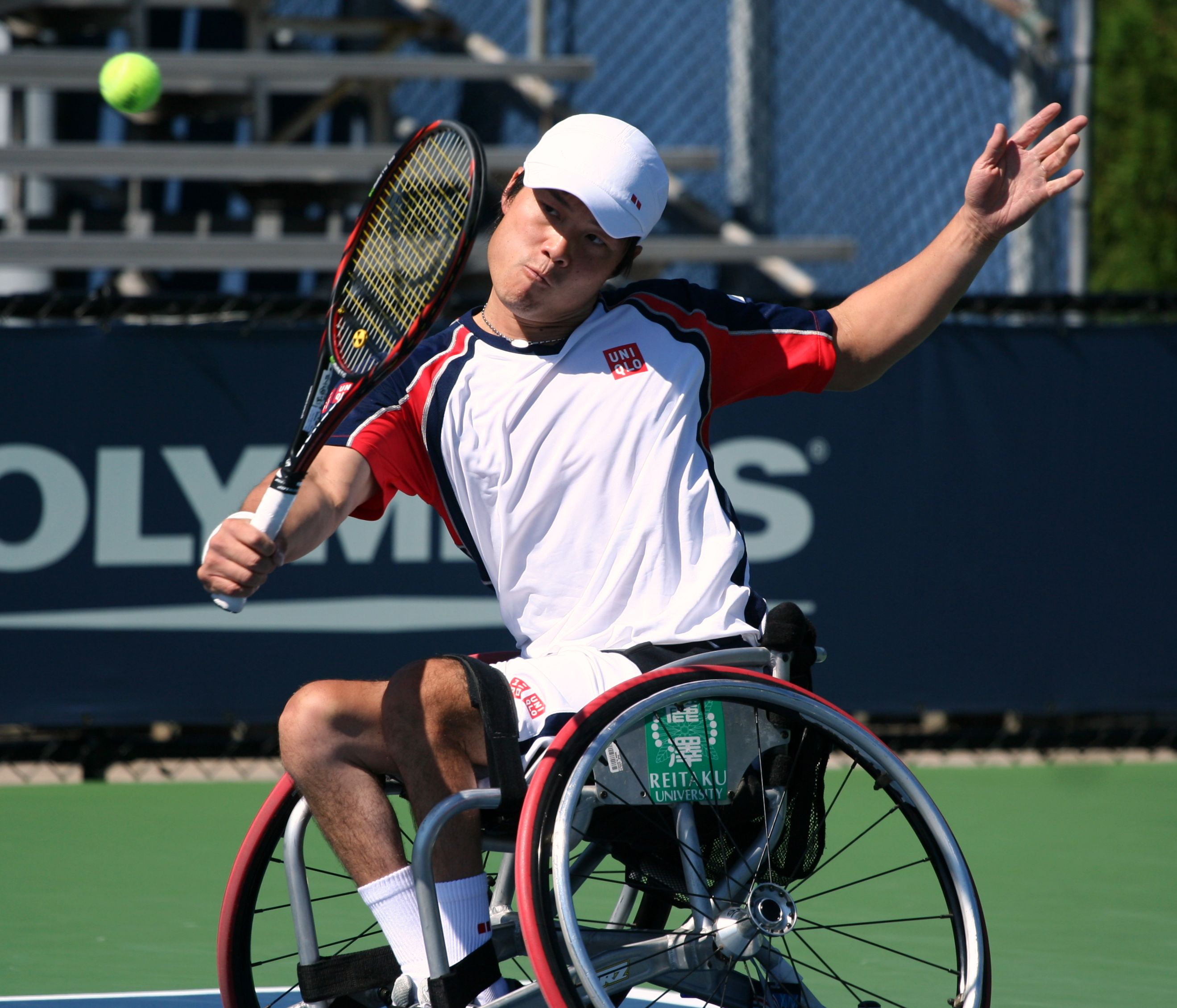 U.S. Open Wheelchair Friday, Sept. 9, 2011